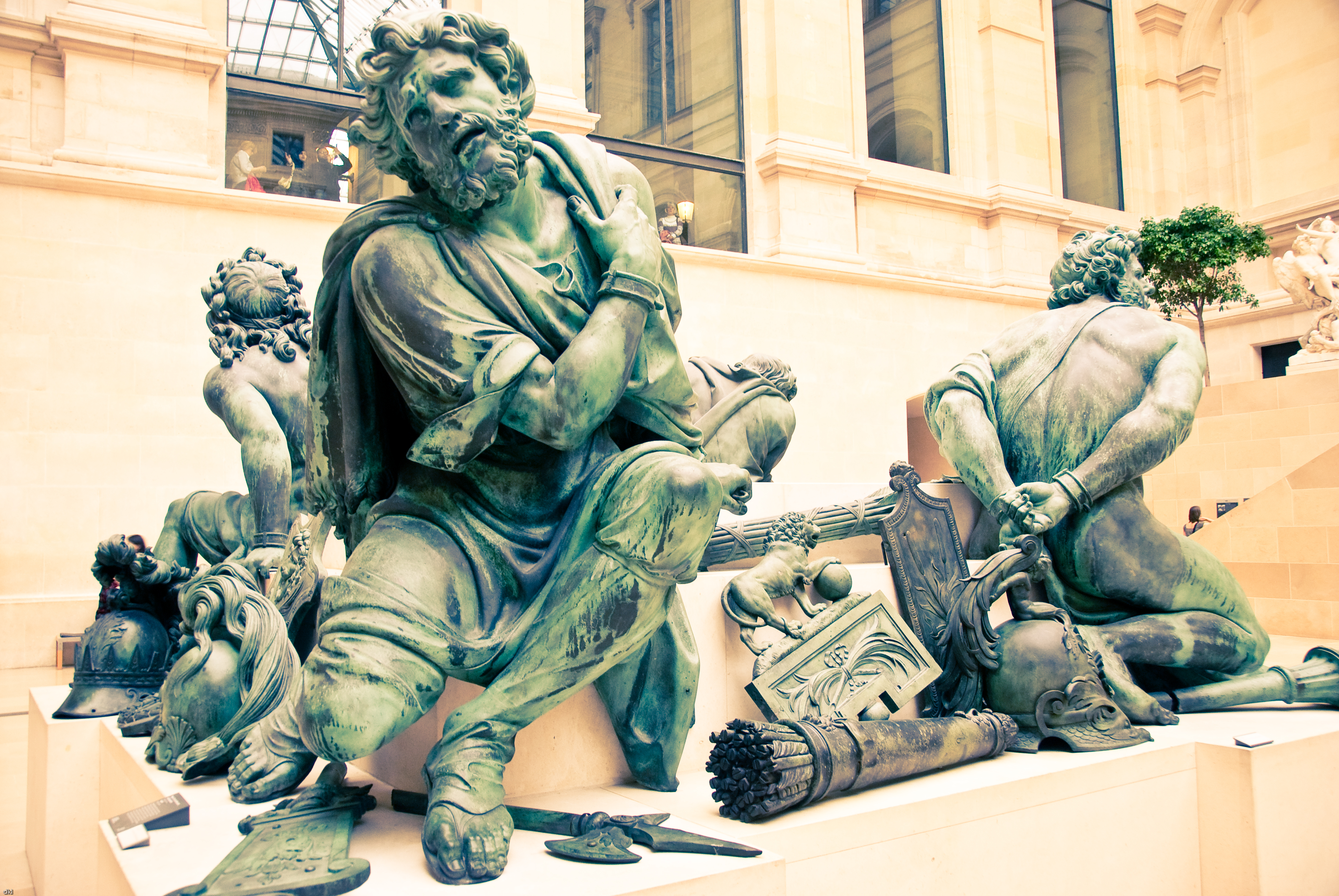 Four Corners 3 of 4